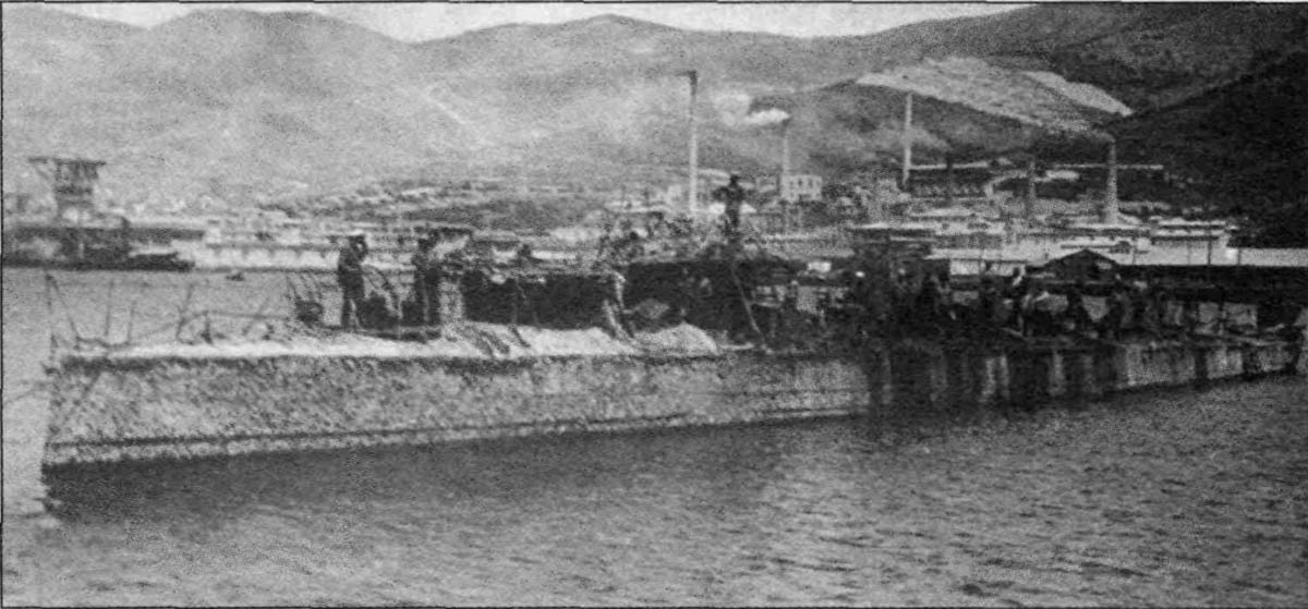 Imperial Russian torpedo boat destroyer Stremitel'nyi.